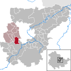 Troistedt in Thuringia - District Weimarer Land